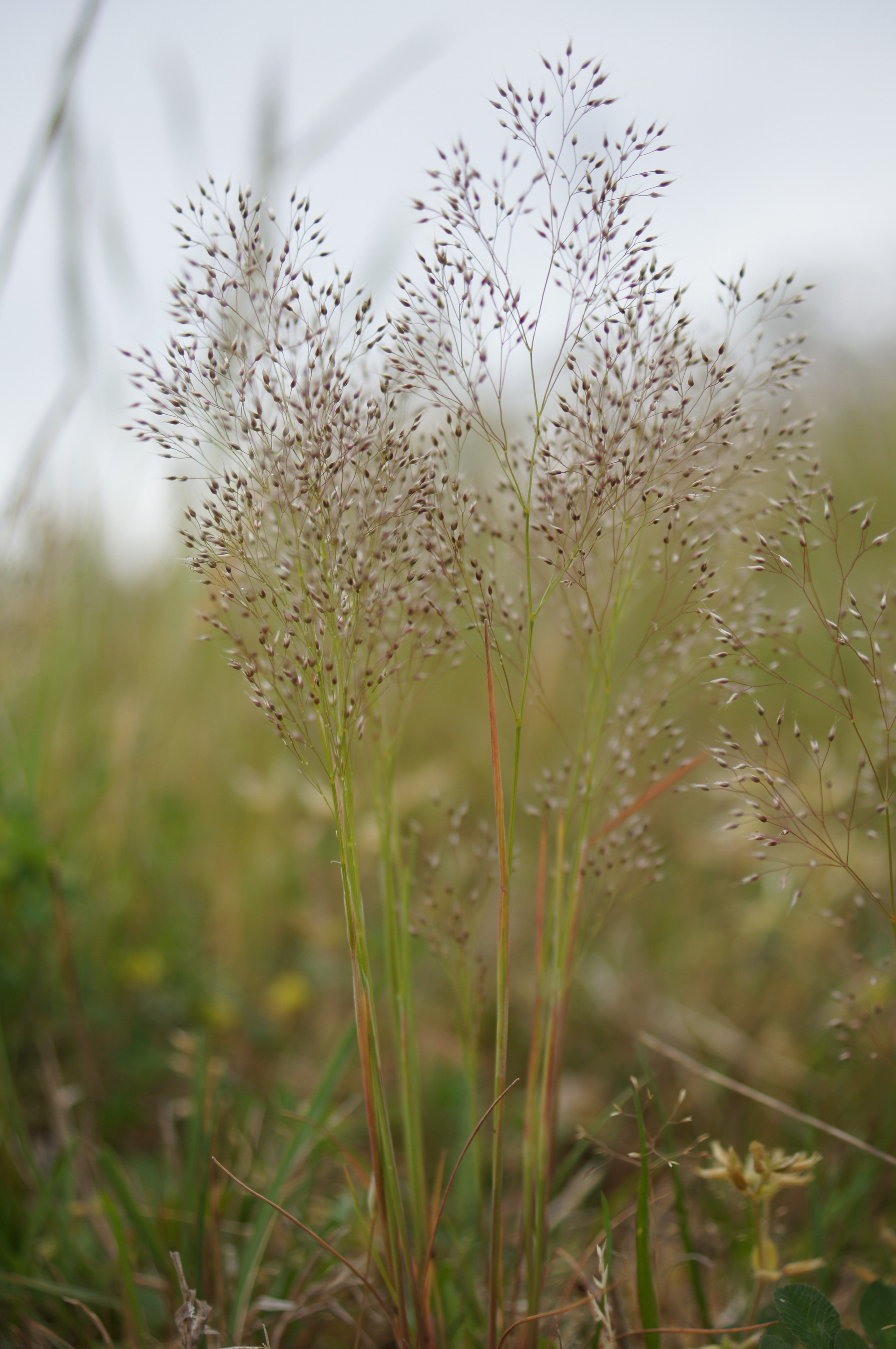 Slender, delicate, erect, tufted grass; to 50 cm tall, but usually less than 30 cm. Leaves are hairless and pale green.